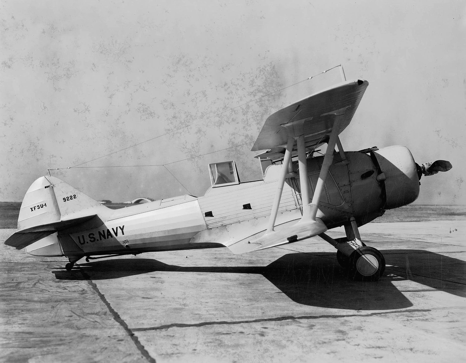 The U.S. Navy Vought XF3U-1 (BuNo 9222) at Naval Air Station (NAS) Hampton Roads, Virginia (USA), on 30 October 1933.